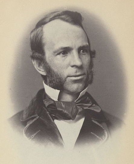 Samuel S. Cox, congressman from Zanesville, Ohio. From (1859) McClees' gallery of photographic portraits of the senators, representatives & delegates to the thirty-fifth Congress, Category:Washington: McClees and Beck, p. 204 .